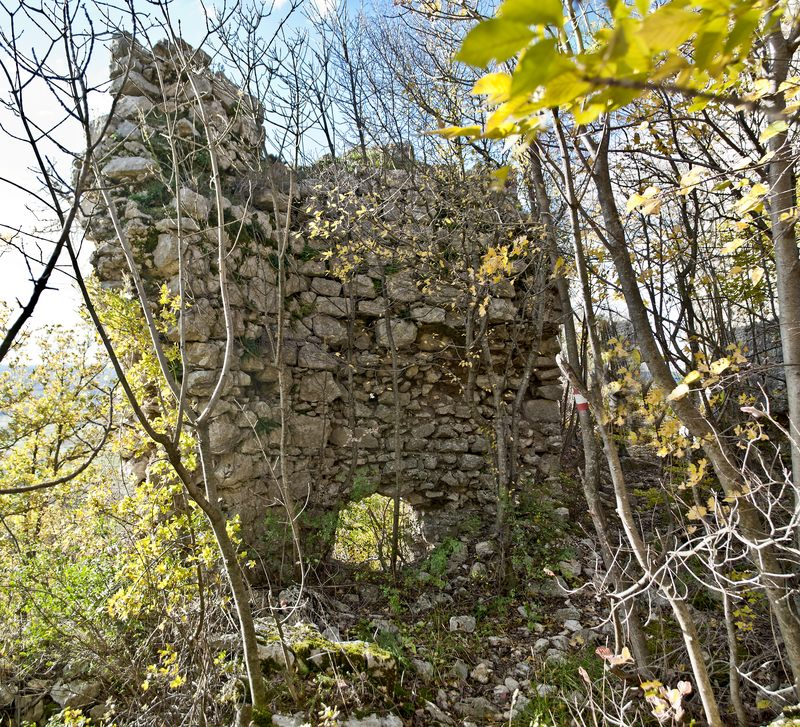 Ruins of medieval castle Kožljak, in Istria, Croatia, on 24 November 2013, by Dinko Gubic